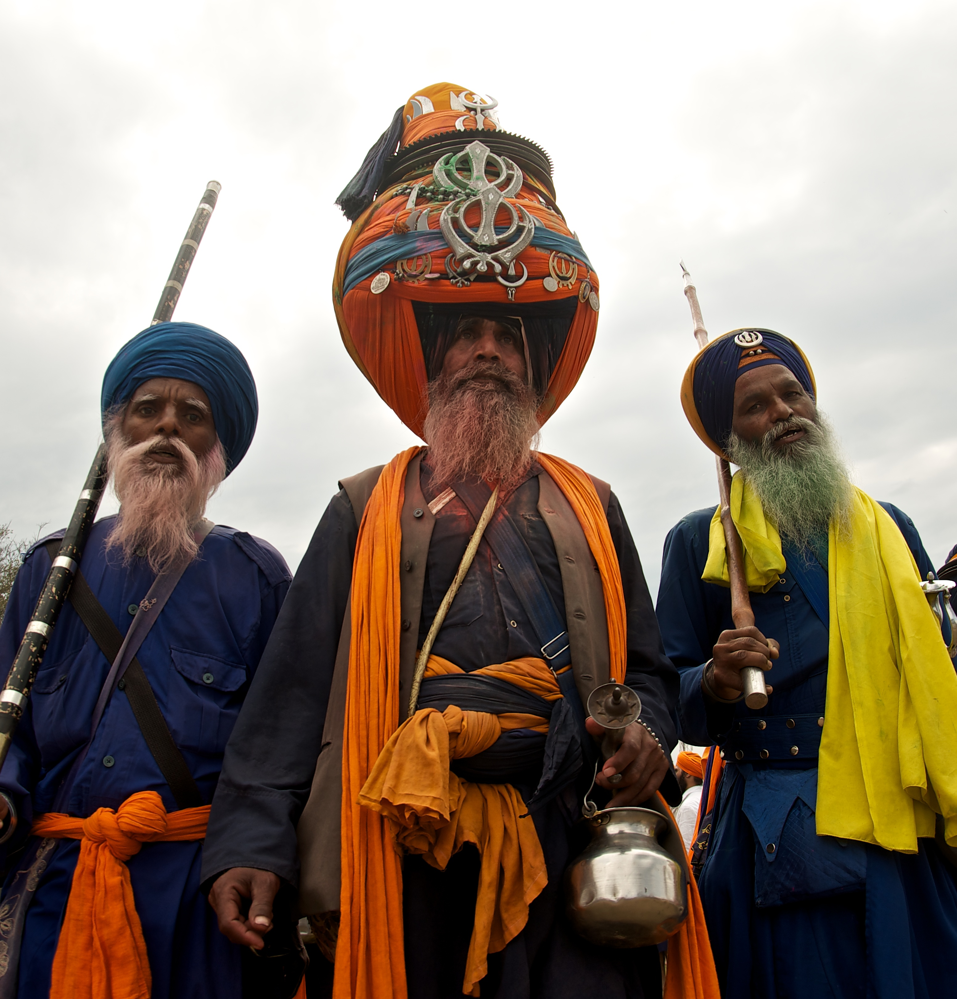 Sikhs gather in large numbers at the pilgrimage site of Anandpur Sahib for Hola Mohalla. Martial arts are at display. They also play with Holi colors, as is visible on the horse riders collar, beard and face.